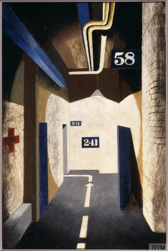 A corridor lit by electric light with numbers and symbols marking the walls and floor.